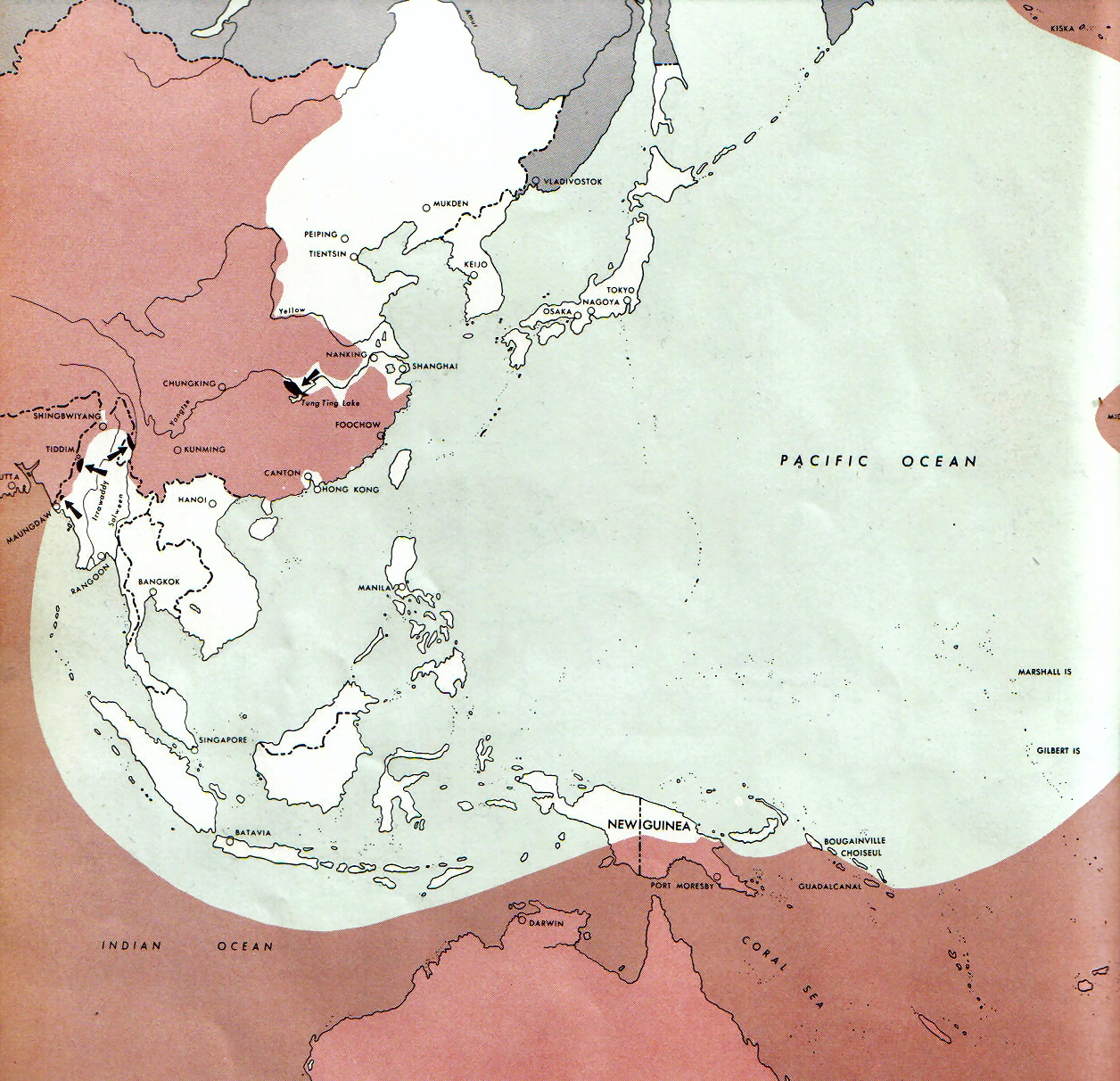 Map of the front against Japan as of 15 Nov 1943: This map is taken from the source "Atlas of the World Battle Fronts in Semimonthly Phases to August 15th 1945: Supplement to The Biennial report of The Chief of Staff of the United States Army July 1, 1943 to June 30 1945 To the Secretary of War". (See Cover, Forward and Map details)